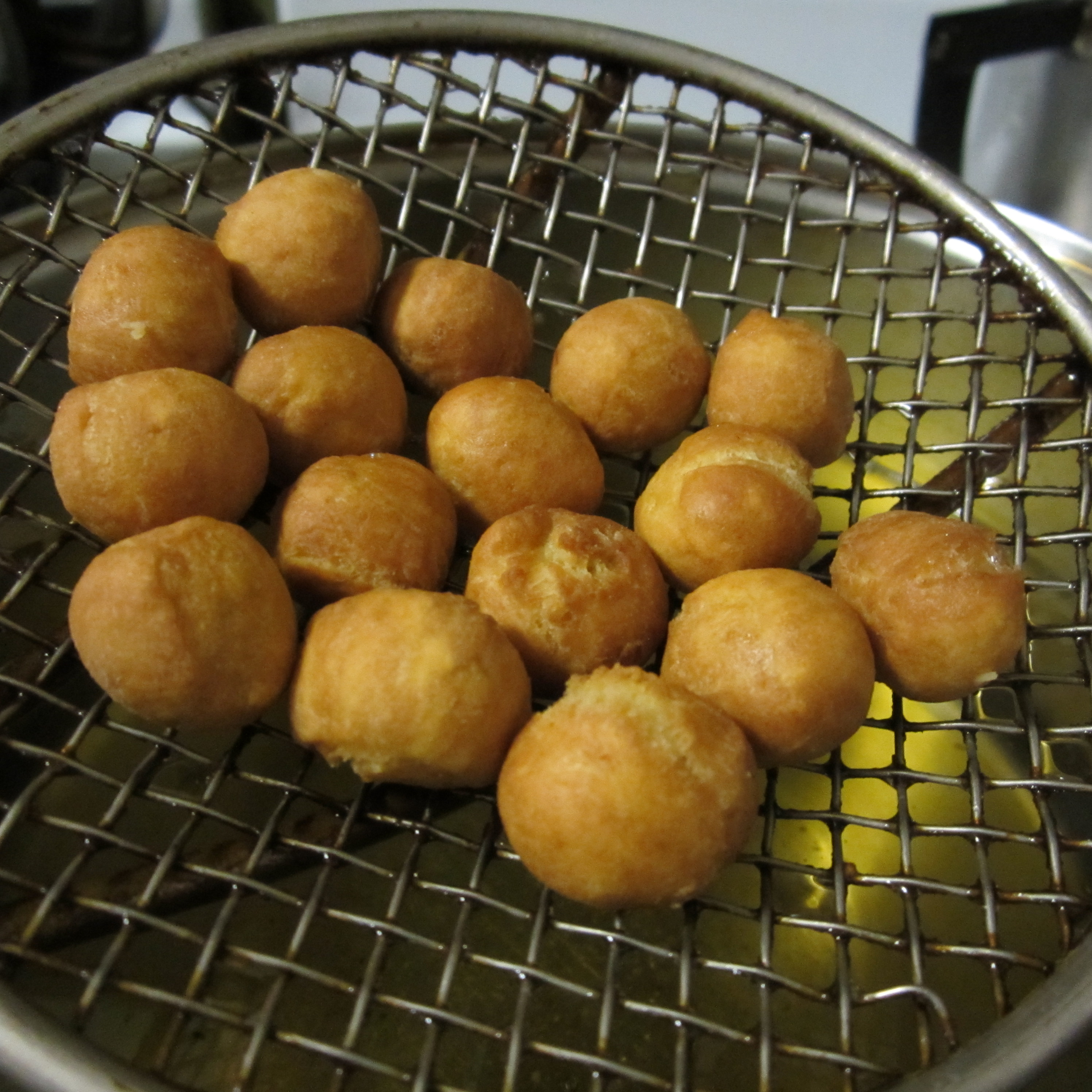 Here's my mother's recipe